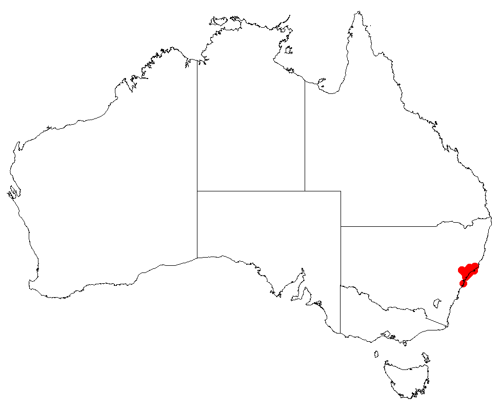 Macrozamia flexuosa occurrence data downloaded from Australasian Virtual Herbarium using